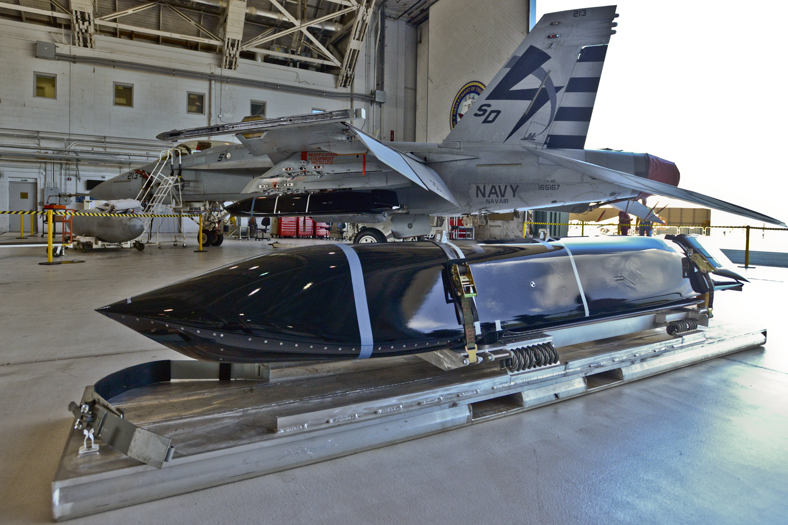 A Long Range Anti-Ship Missile (LRASM) integrated on F/A-18E/F Super Hornet 12 August 2005 at NAS Patuxent River, Md.